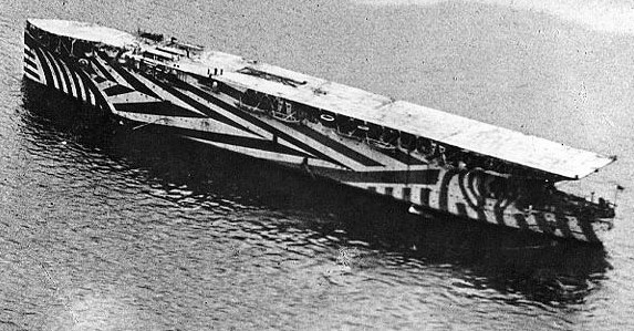 HMS Argus wearing dazzle camouflage